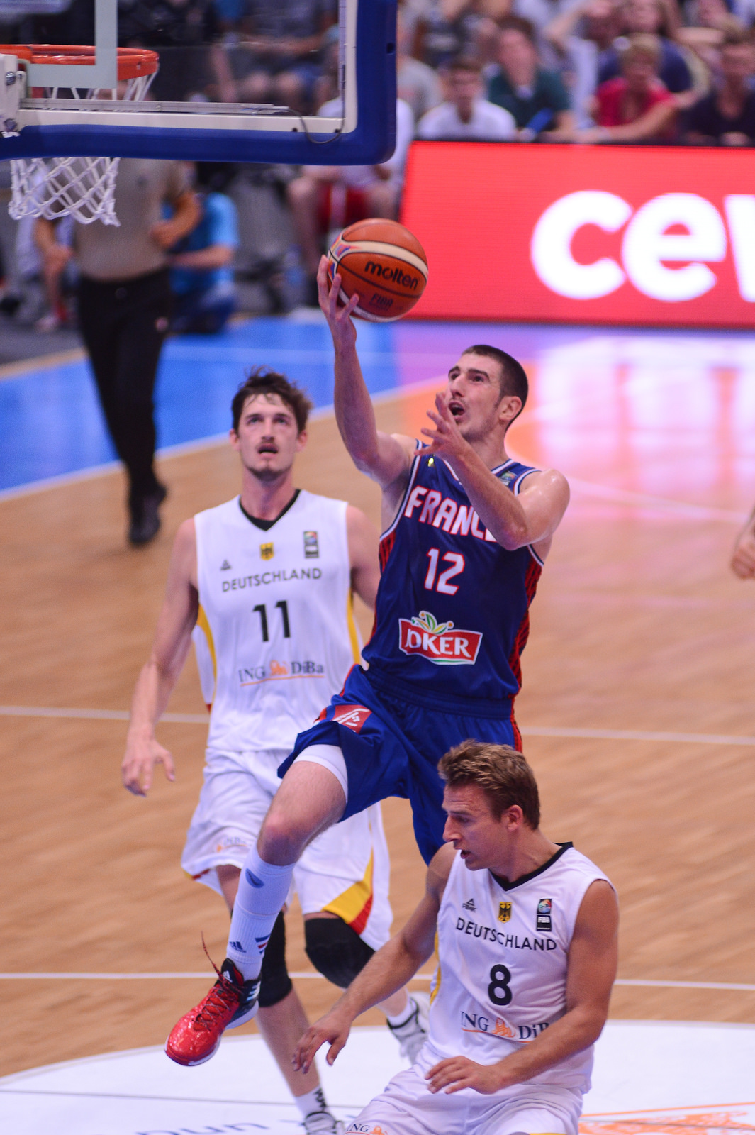 Nando de Colo playing for France in friendly game against Germany on 30 August 2015.